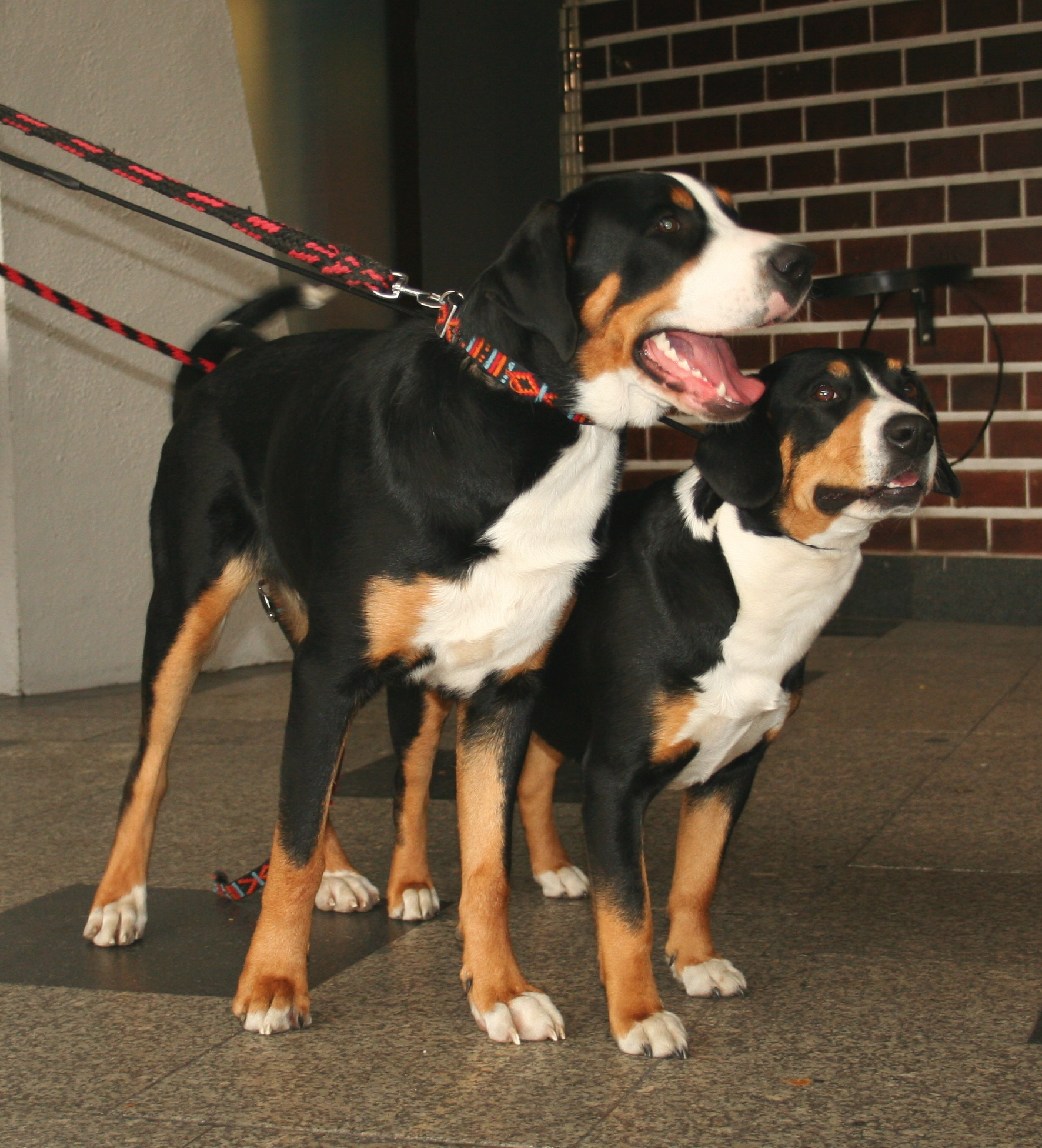 Grosser Schweizer Sennenhund and Entlebucher Sennenhund during International show of dogs in Katowice - Spodek, Poland.